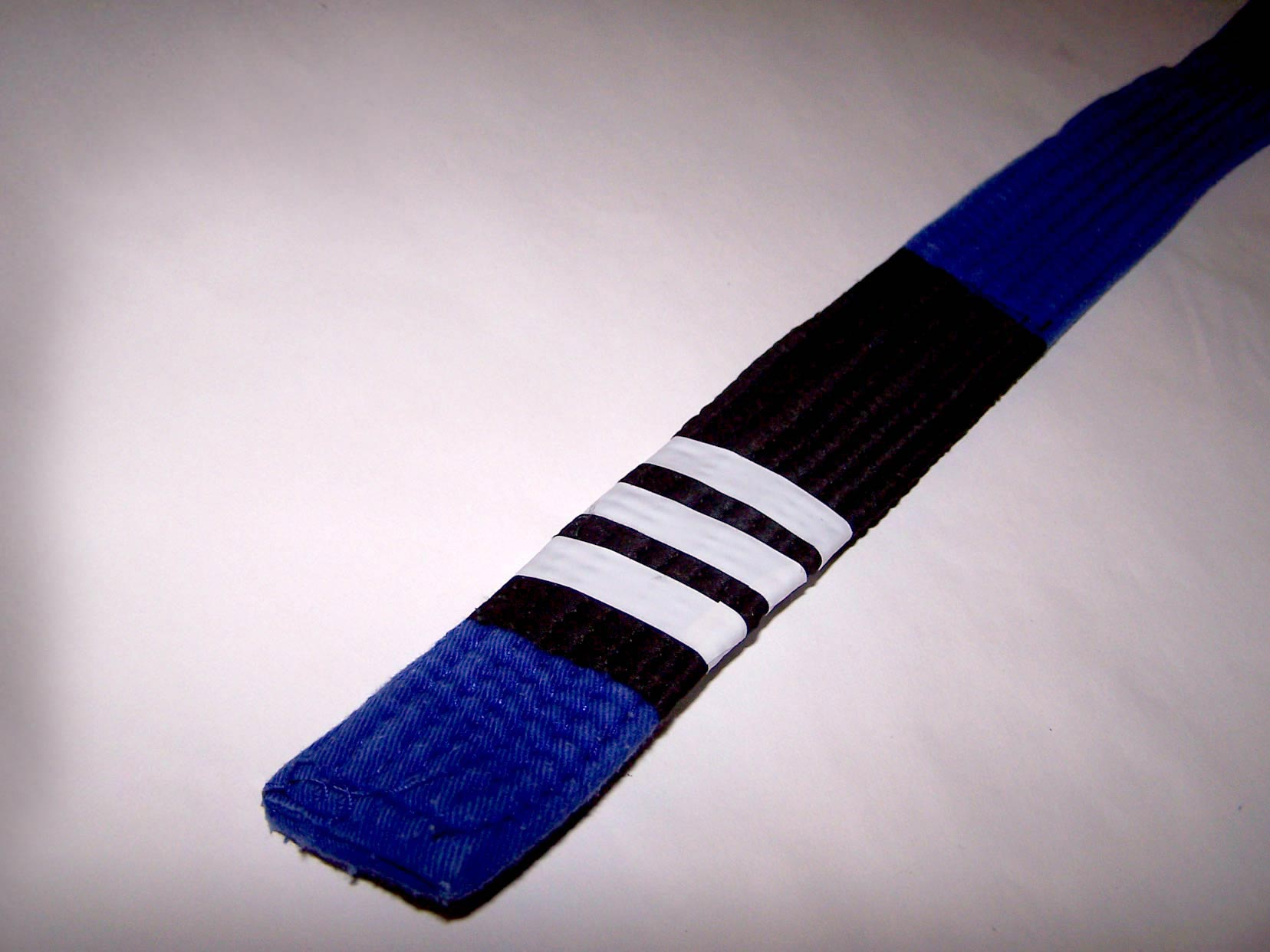 A striped Brazilian Jiu-Jitsu blue belt.